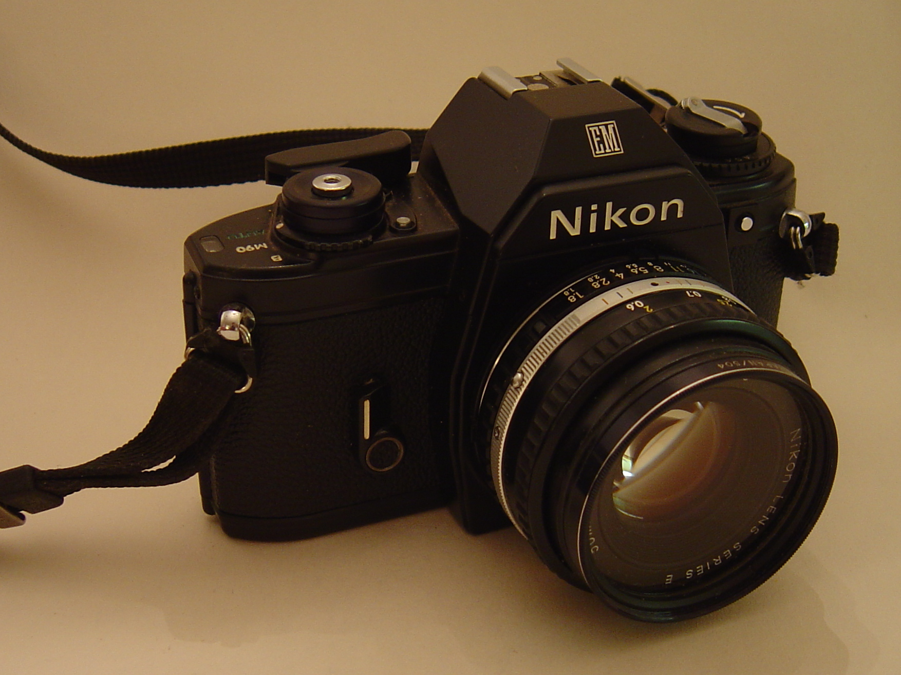 Nikon EM 35mm film SLR camera with Nikon Series E 50mm lens